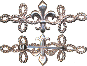 4th Regiment Hassard, brush wives, silver (France).